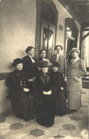 Margy Coit with fellow delegates at the International Suffrage Congress in Budapest, 1913. (© sic Gothenburg University Library)